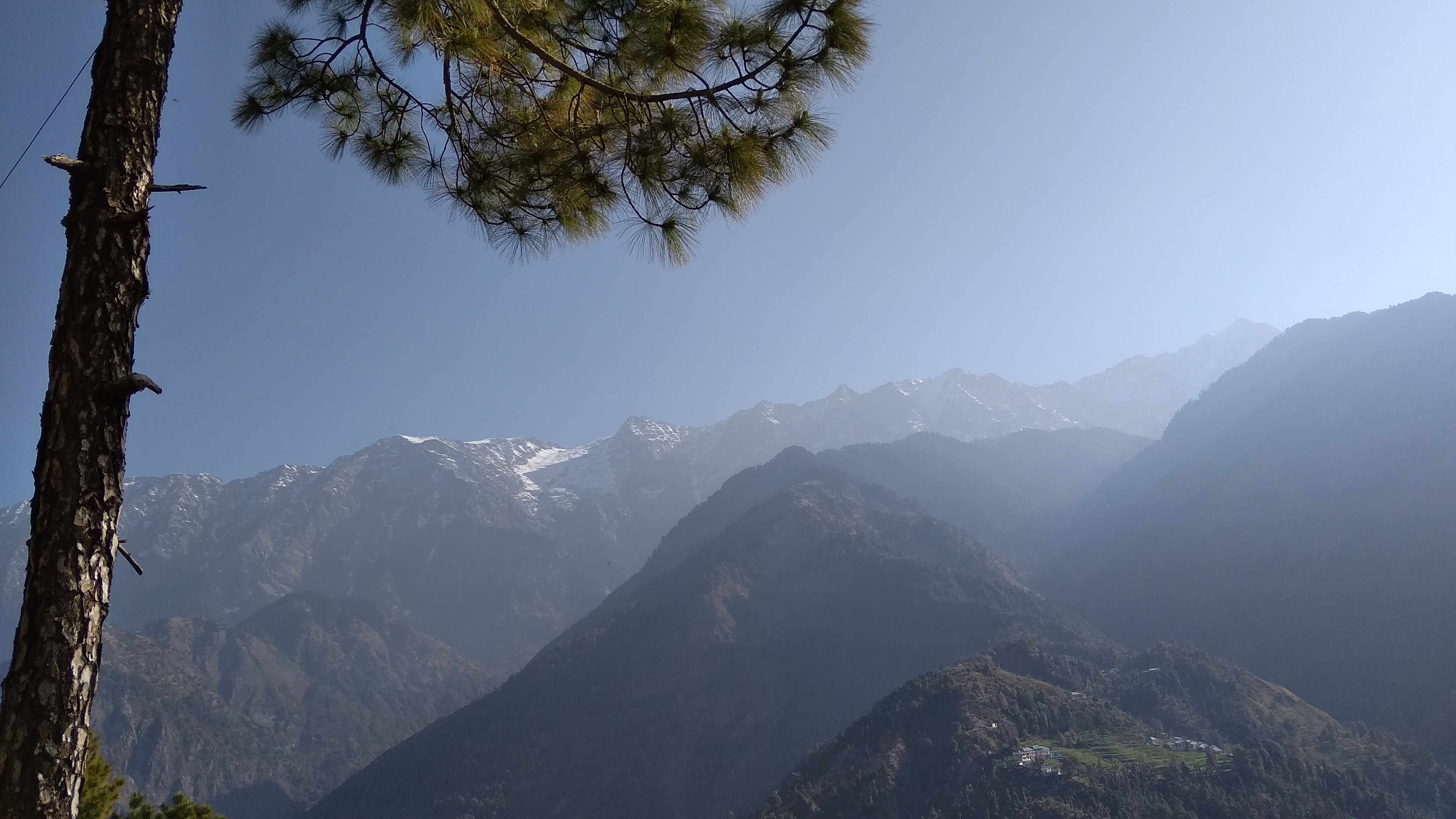 Dhauladhar is a part of lesser Himalayan chain of Mountains and Naddi is a small tiny village just 3 km away from MacLeod Ganj